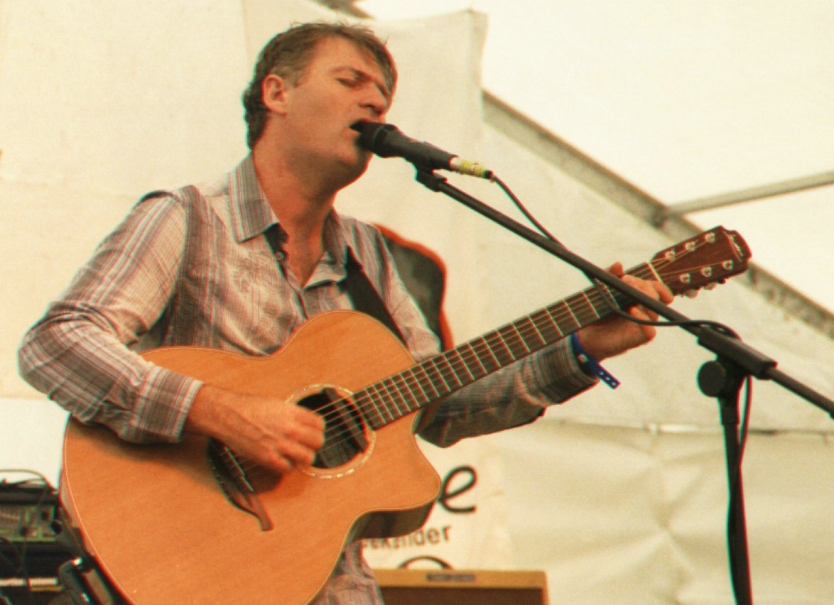 Nick Harper performing in The Musician Tent, Summer Sundae, De Montfort Hall, Leicester. 2004. I took this. GWO